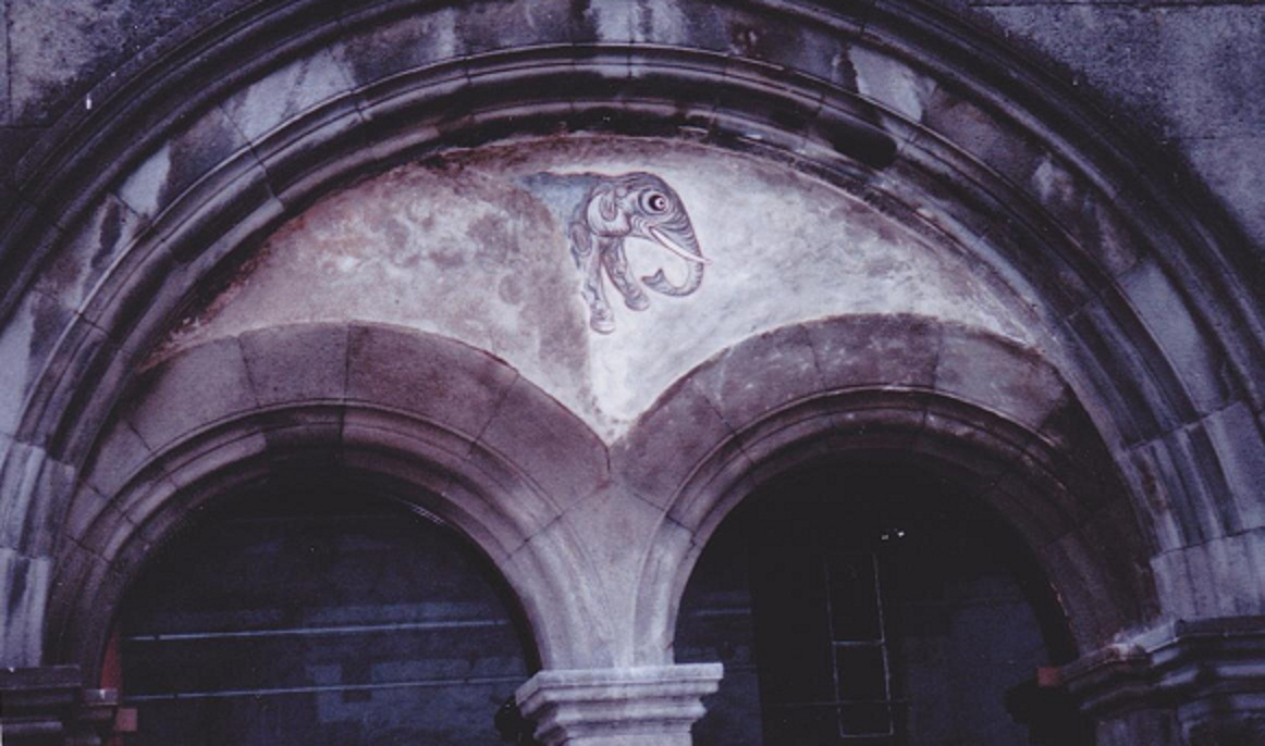 "maison de l'éléphant" Montferrand